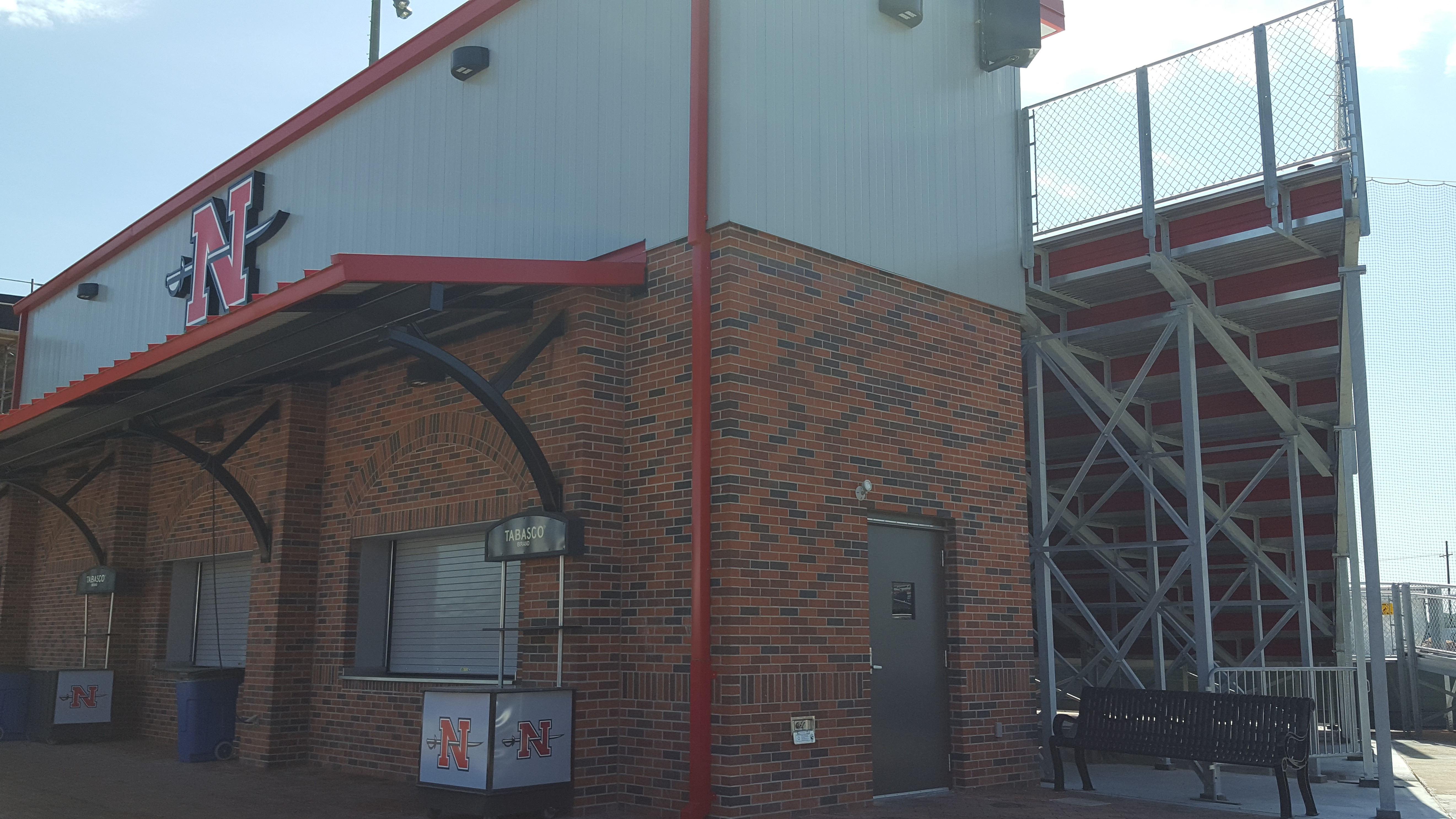 Ray E. Didier Field (Thibodaux, Louisiana) grandstand